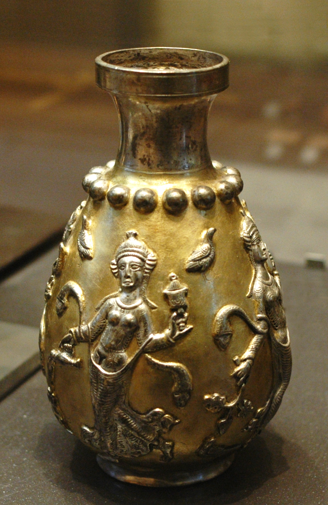 Vase with four dancers, Sassanid art.